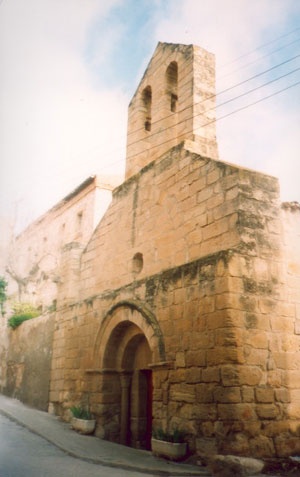 Saint Peter's romanic Church